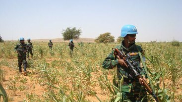 Patrolling at un msn